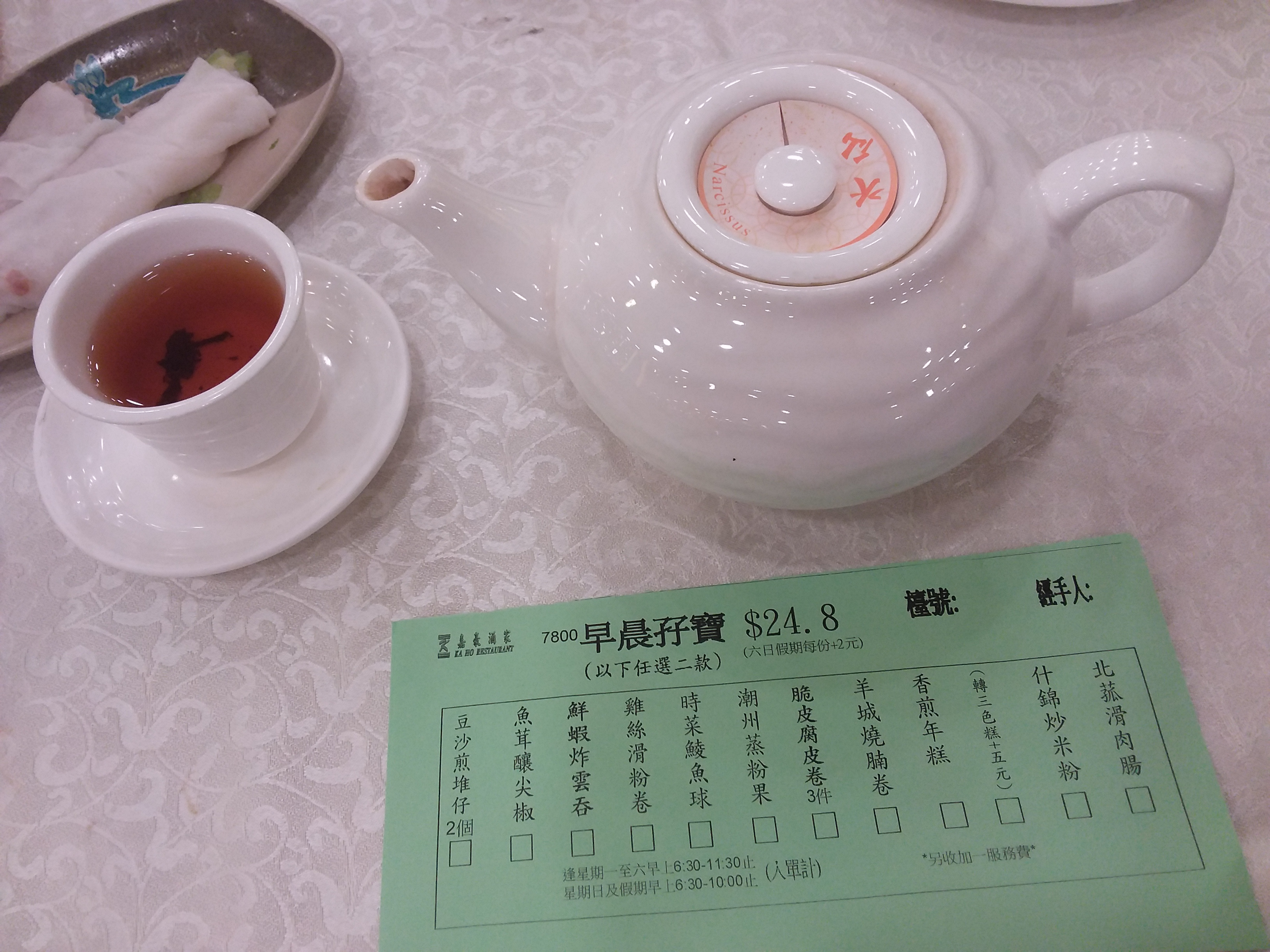 HK 上環 Sheung Wan 樂古道 Lok Ku Road 中源中心 Midland Centre 嘉豪酒家 Ka Ho Restaurant in June 2019